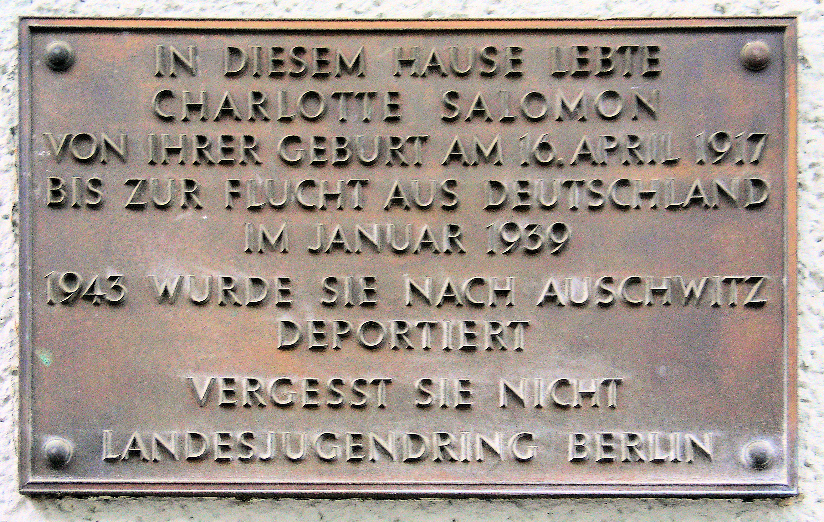 Memorial plaque, Charlotte Salomon, Wielandstraße 15, Berlin-Charlottenburg, Germany Koordinate:52°30′11.1″N 13°18′55″E / 52.503083°N 13.31528°E